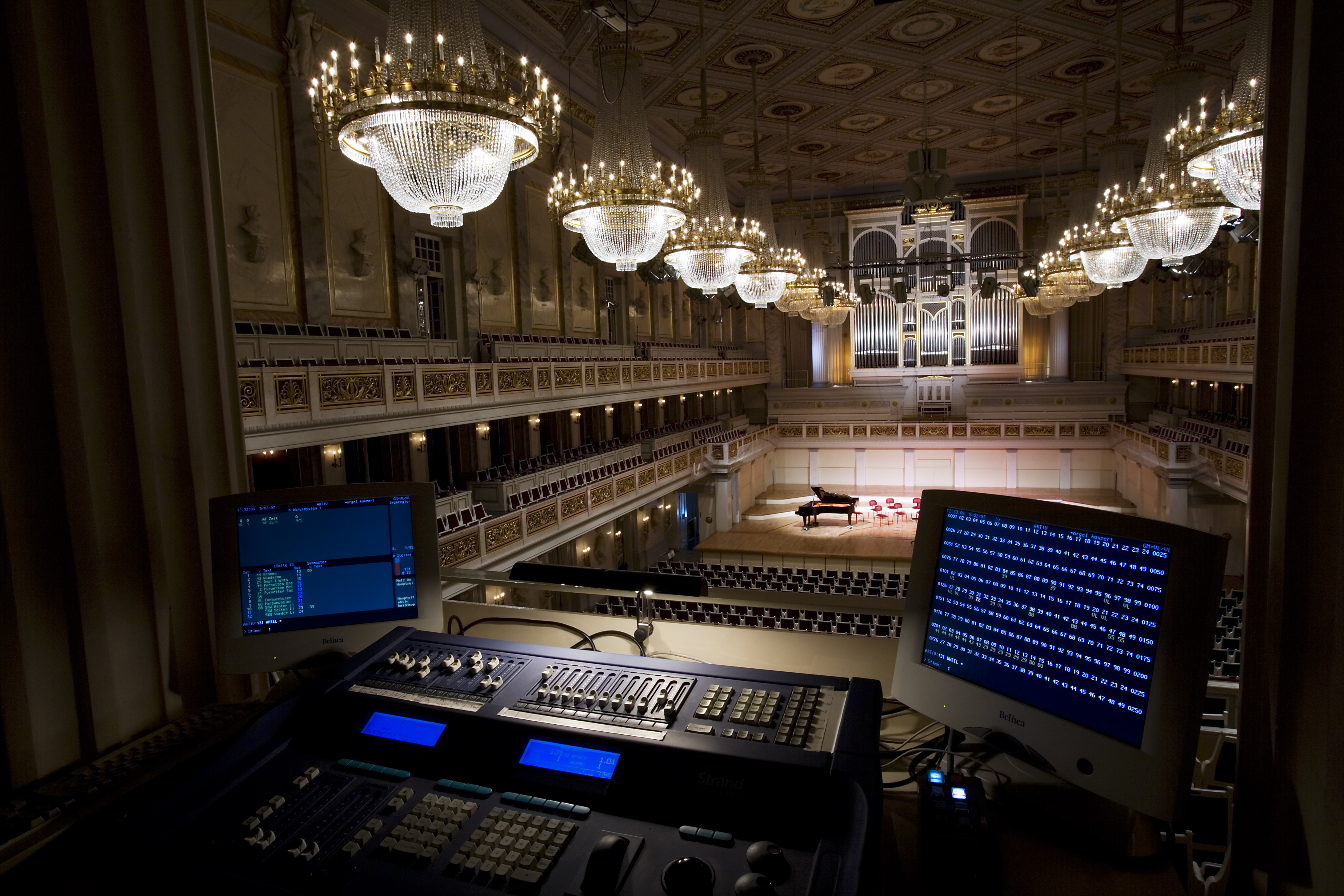 Light control room at the main hall in the Konzerthaus Berlin, Germany